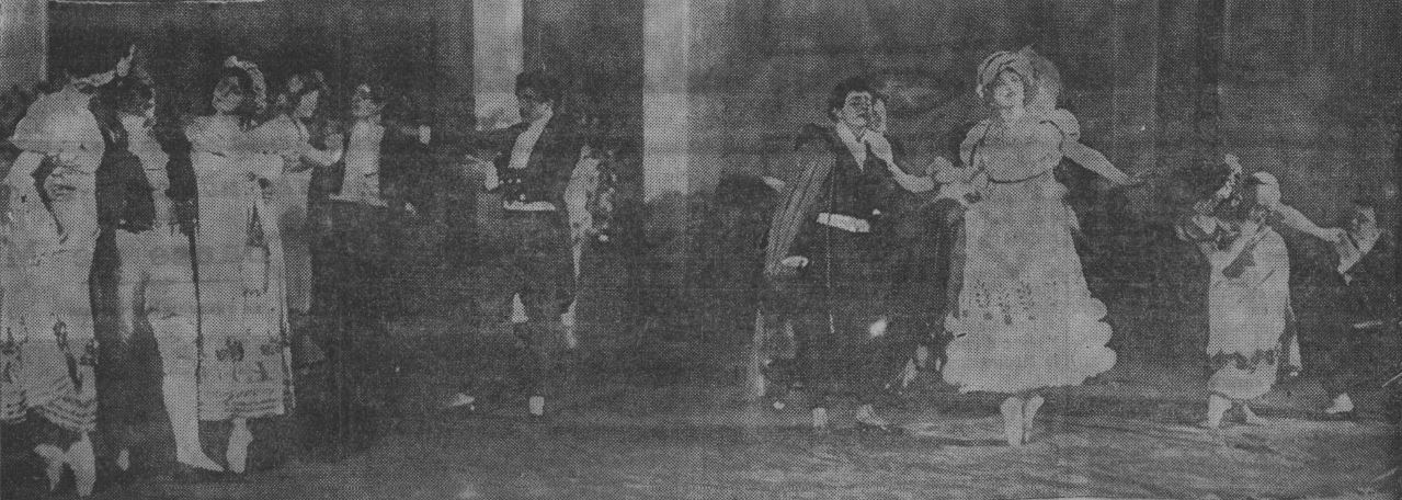 Adélaïde